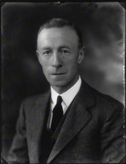 Official portrait of Sir Arthur George Murchison Fletcher (1878 - 1954), British colonial administrator.